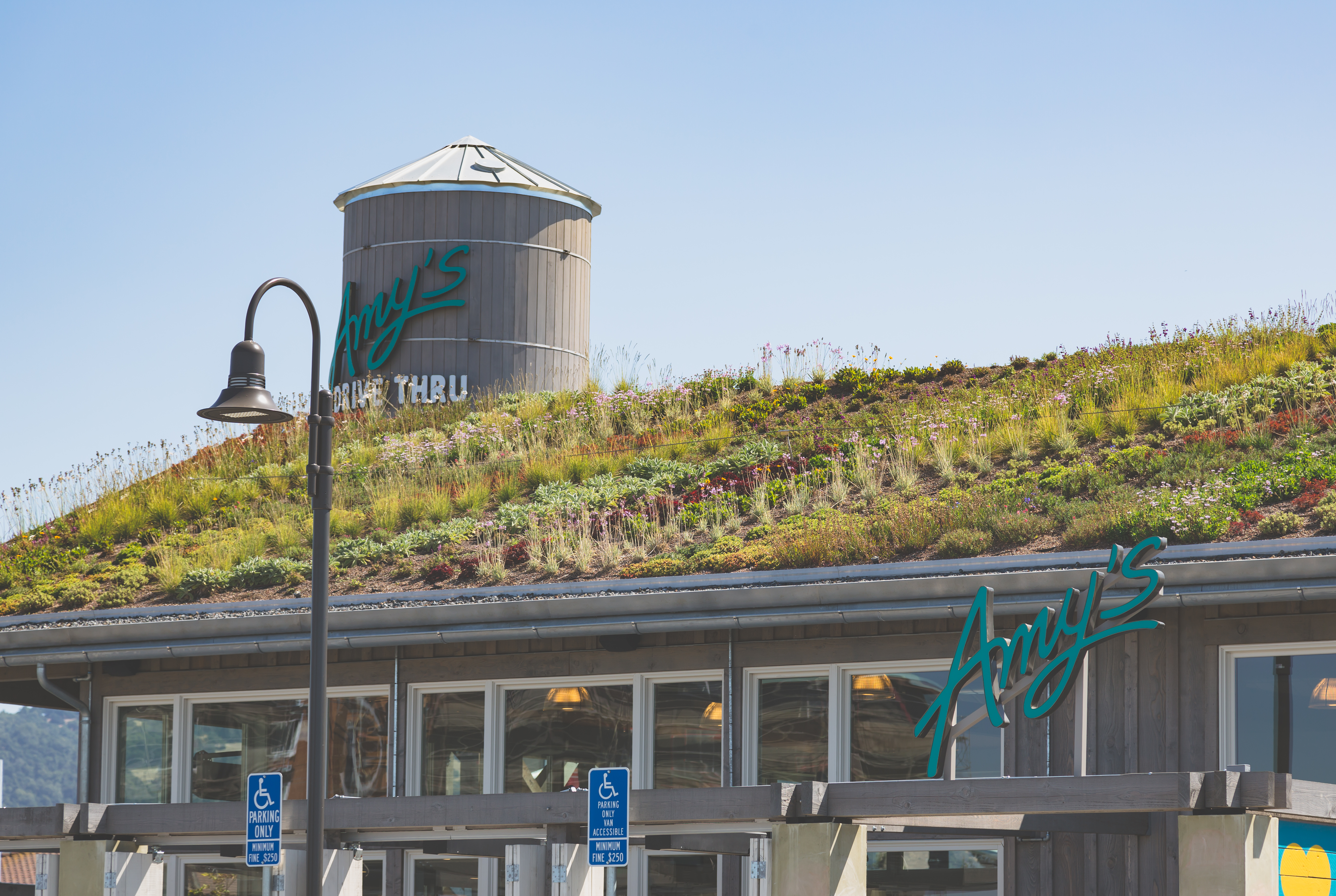 Amy's Drive Thru in Rohnert Park, California.